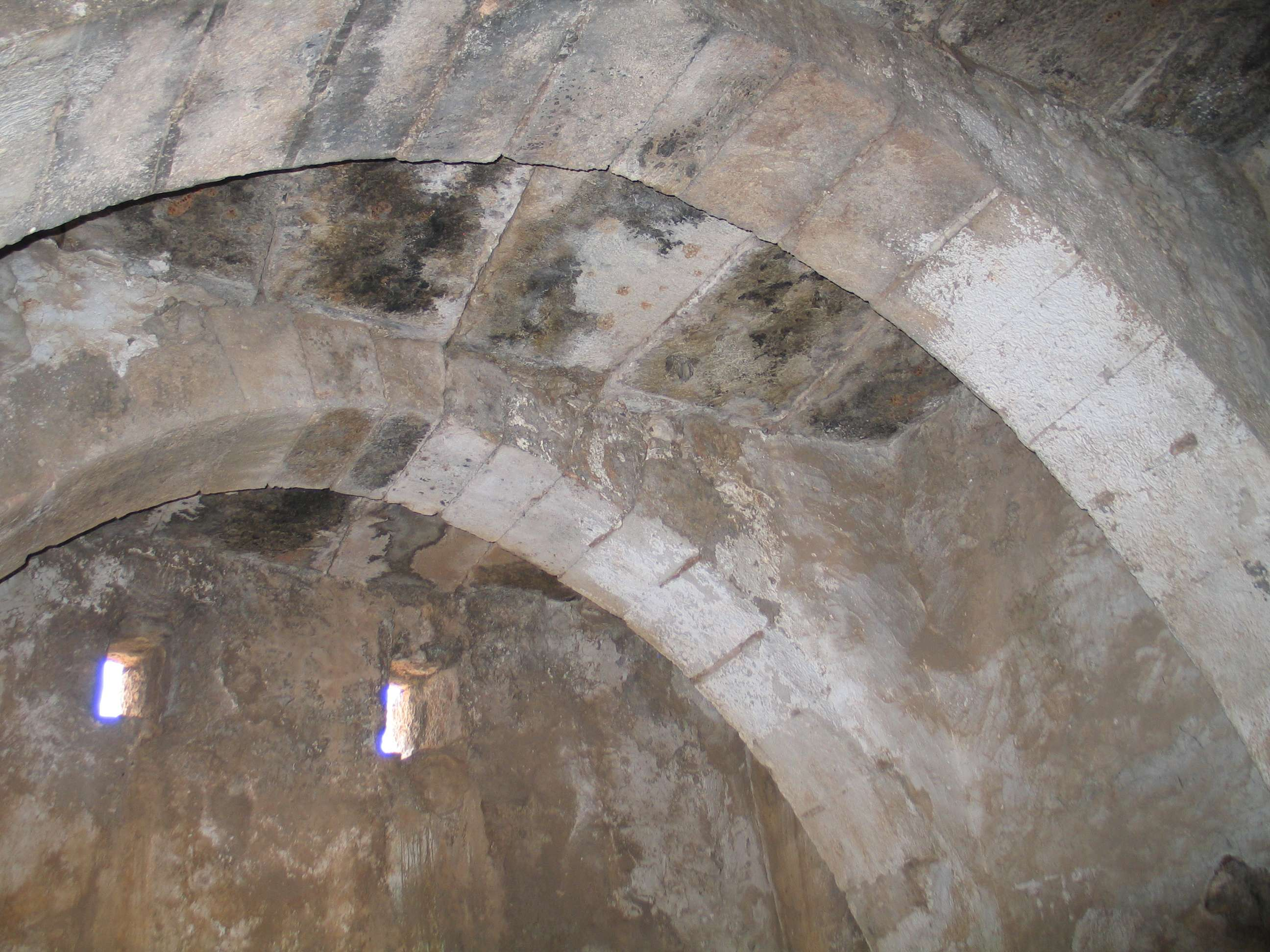 Mazor mausoleum, near El'ad, Israel.